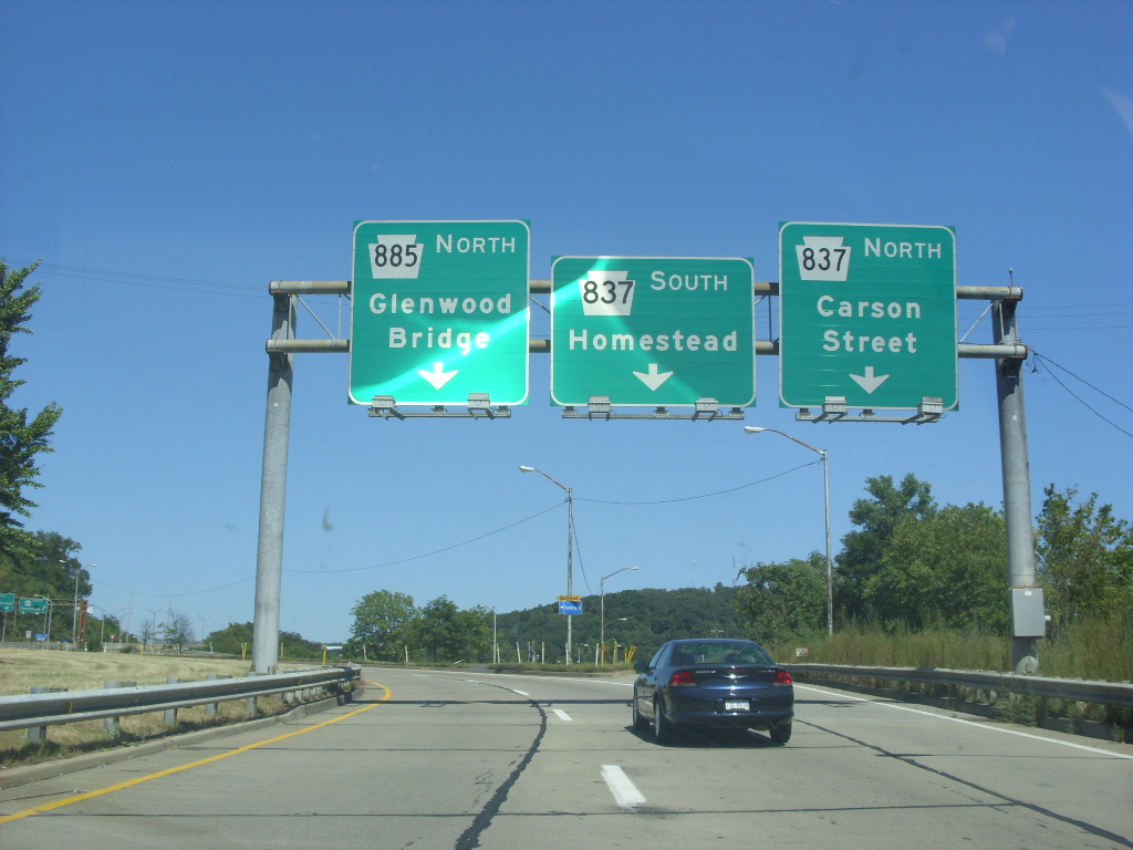 Pennsylvania State Route 885